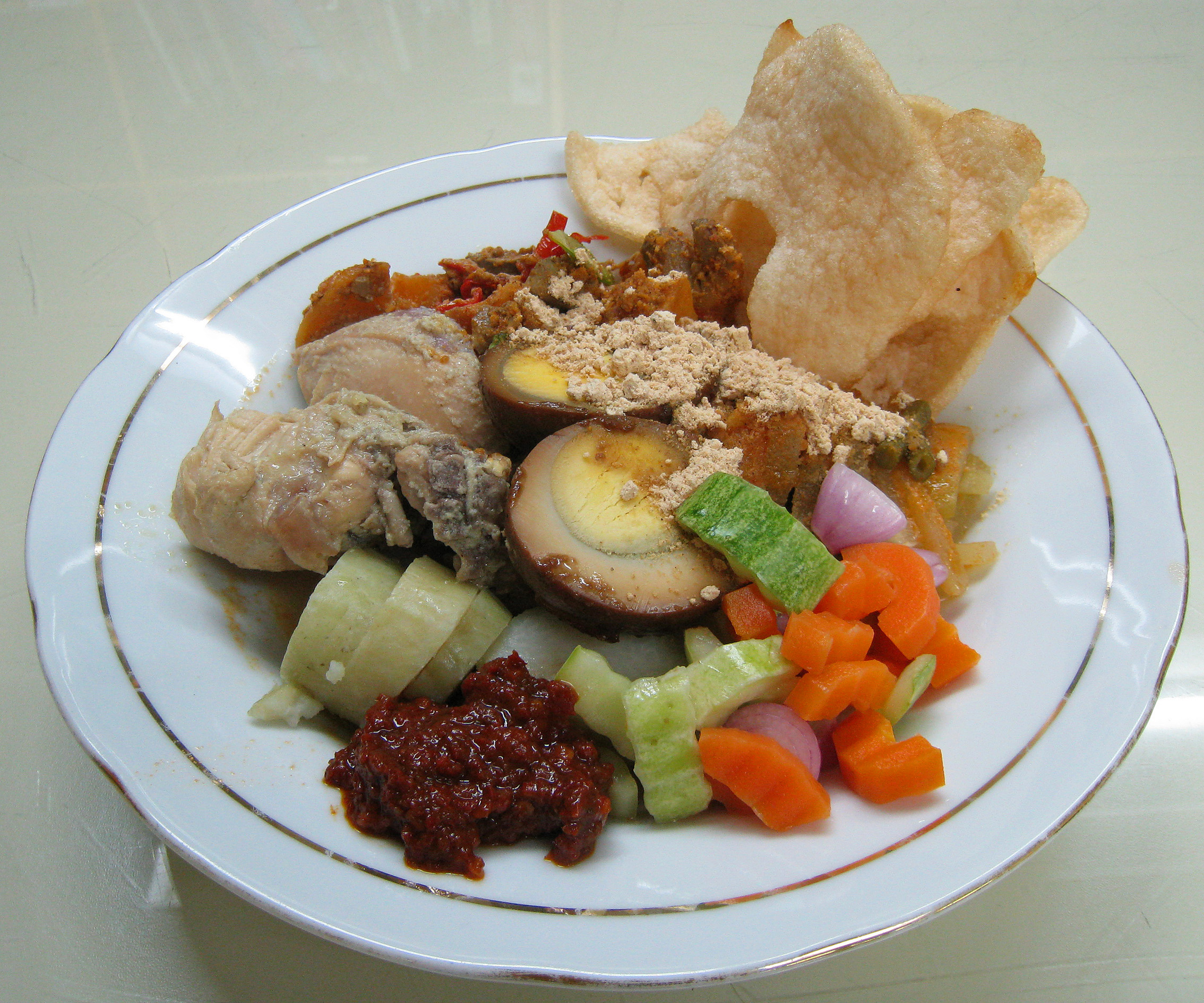 Lontong Cap Go Meh is a peranakan Chinese Indonesian take on traditional Indonesian dishes, more precisely Javanese cuisine. It is lontong served with rich opor ayam, sayur lodeh, sambal goreng ati (beef liver in sambal), acar, telur pindang (hard boiled marble egg), koya powder (mixture of soy and dried shrimp powder), sambal, and kerupuk udang (prawn crackers). Lontong Cap Go Meh usually consumed by Chinese Indonesian community during Cap go meh celebration.